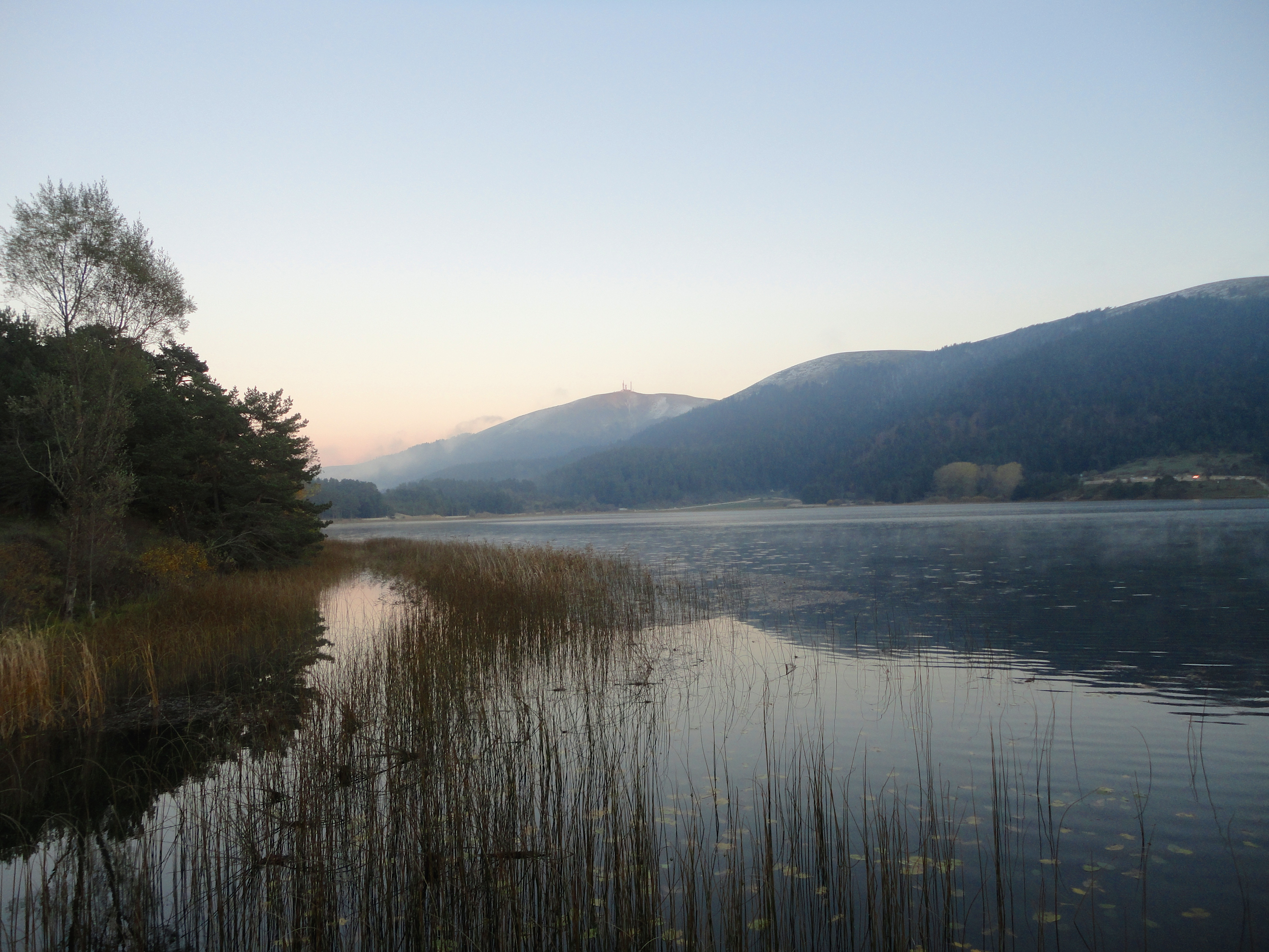 view on Lake Abant in Turkey in autumn (photograph taken in 2010)